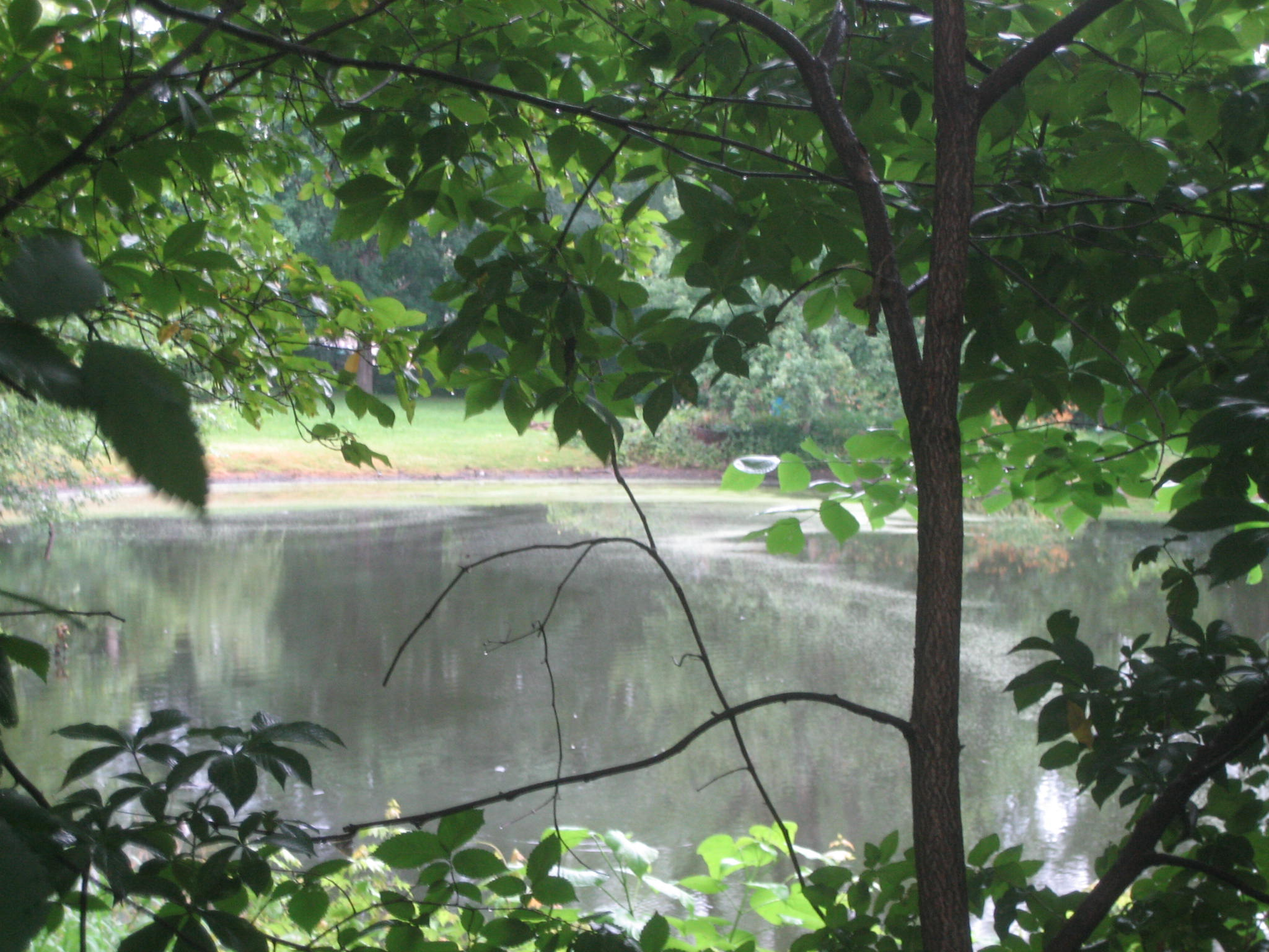 Patten's Pond, Chauncey Ellwood House, Sycamore, Illinois. Sycamore Historic District, National Register of Historic Places